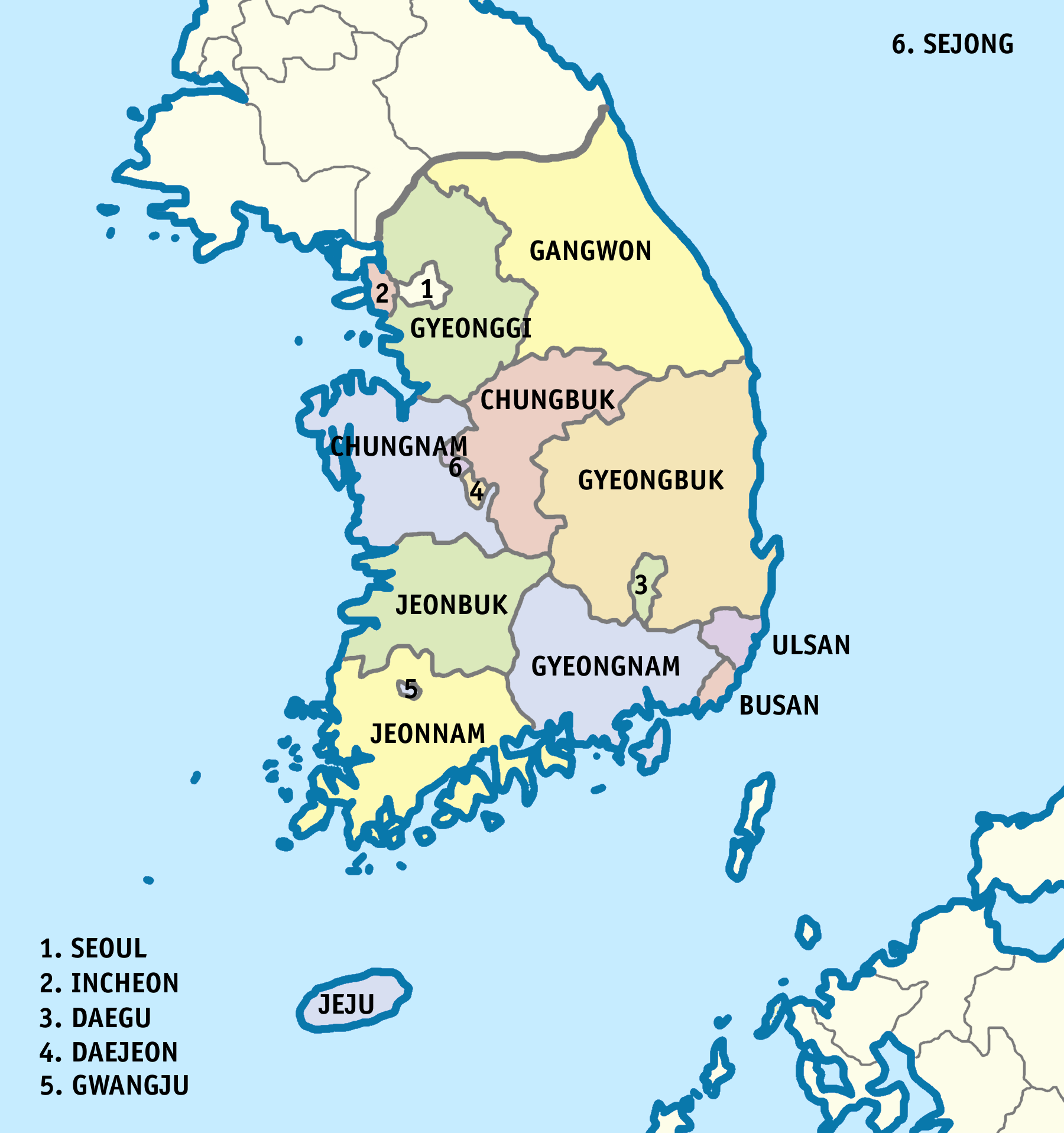 political map of south korea provinces.